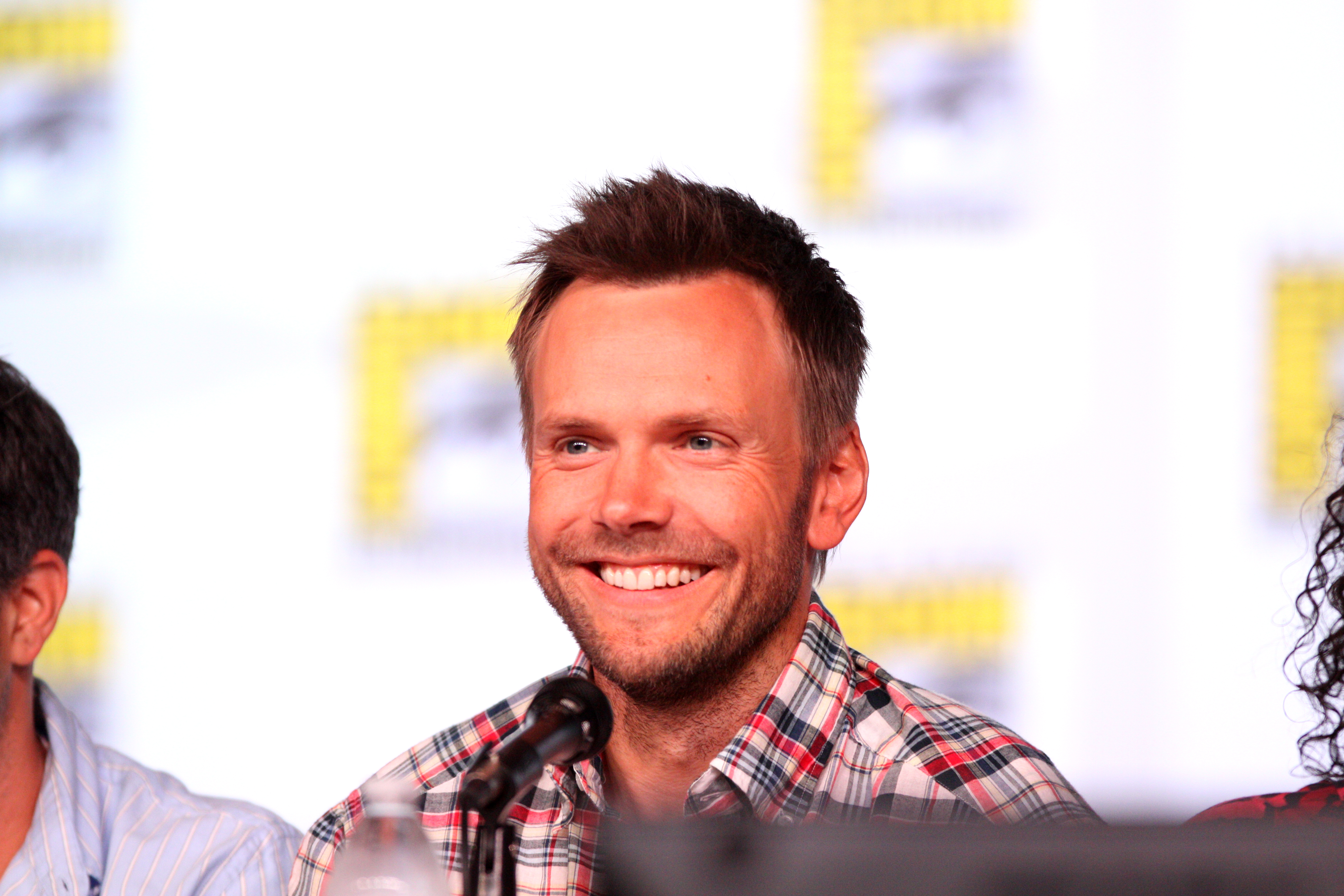 Joel McHale speaking at the 2012 San Diego Comic-Con International in San Diego, California.